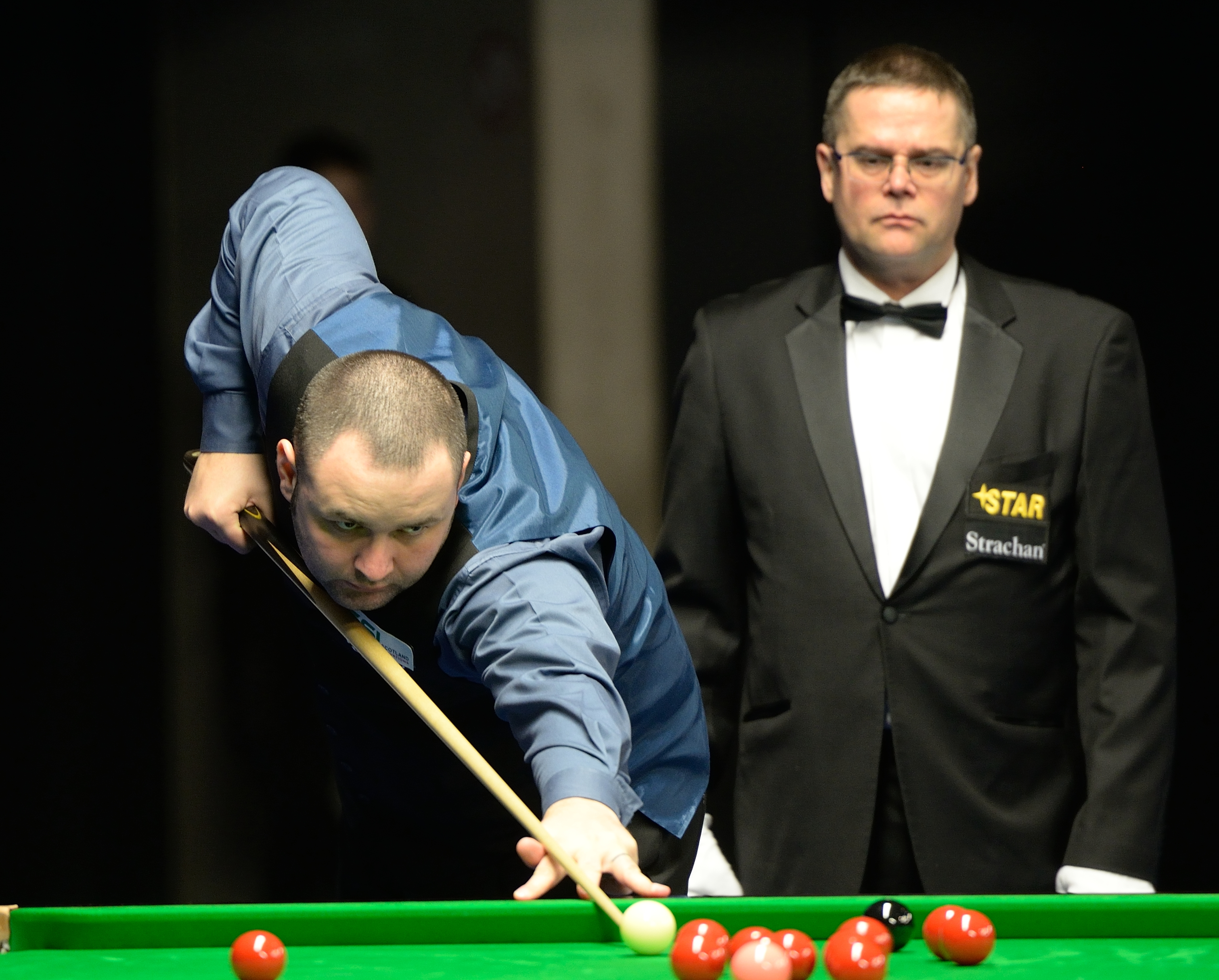 Picture taken in Berlin during the Snooker German Masters in 2015. Stephen Maguire, Ingo Schmidt.